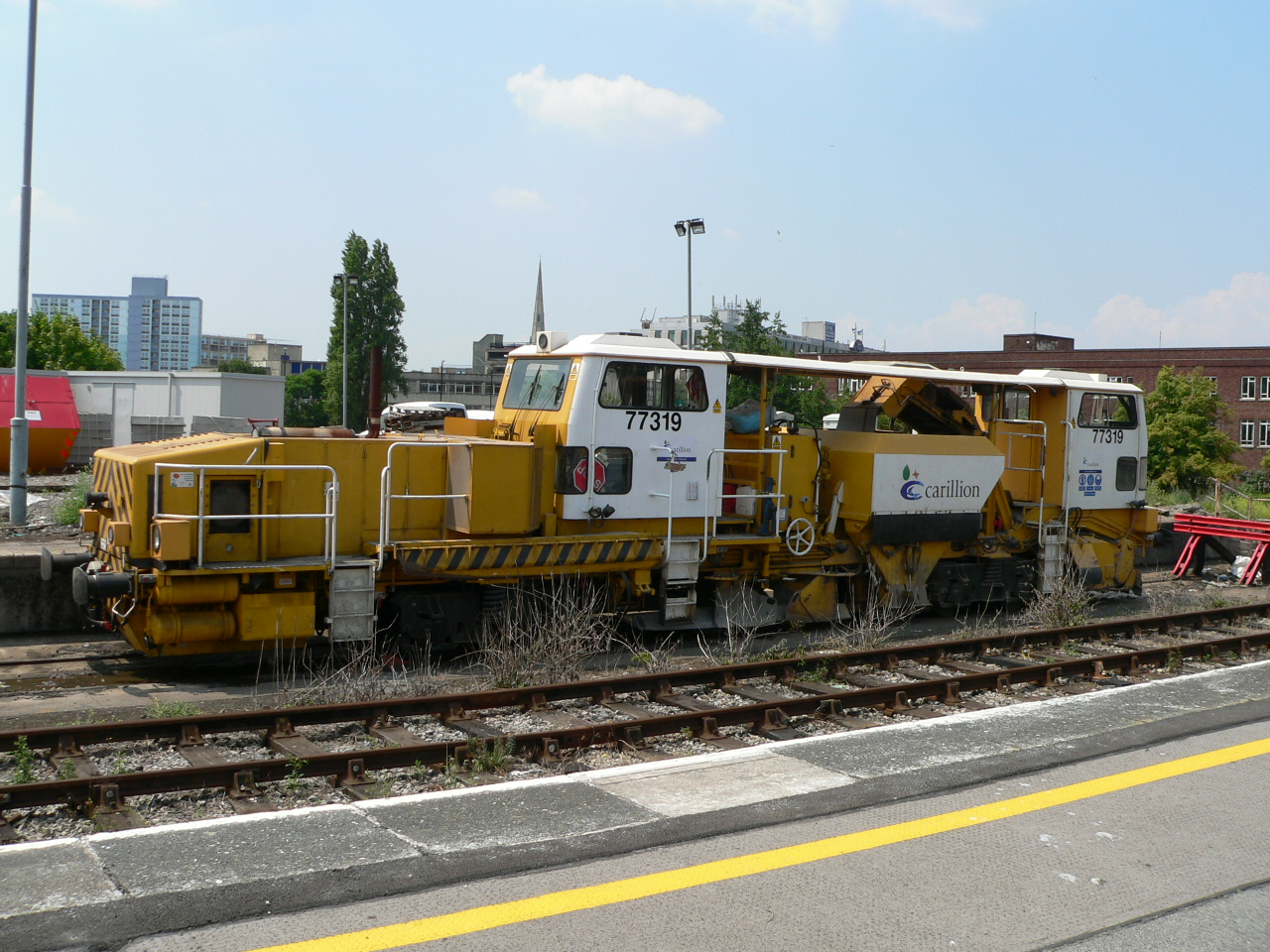 works unit 77319, a Plasser & Theurer USP5000C Ballast Regulator (apparently), operated by Carillion at Bristol Temple Meads.